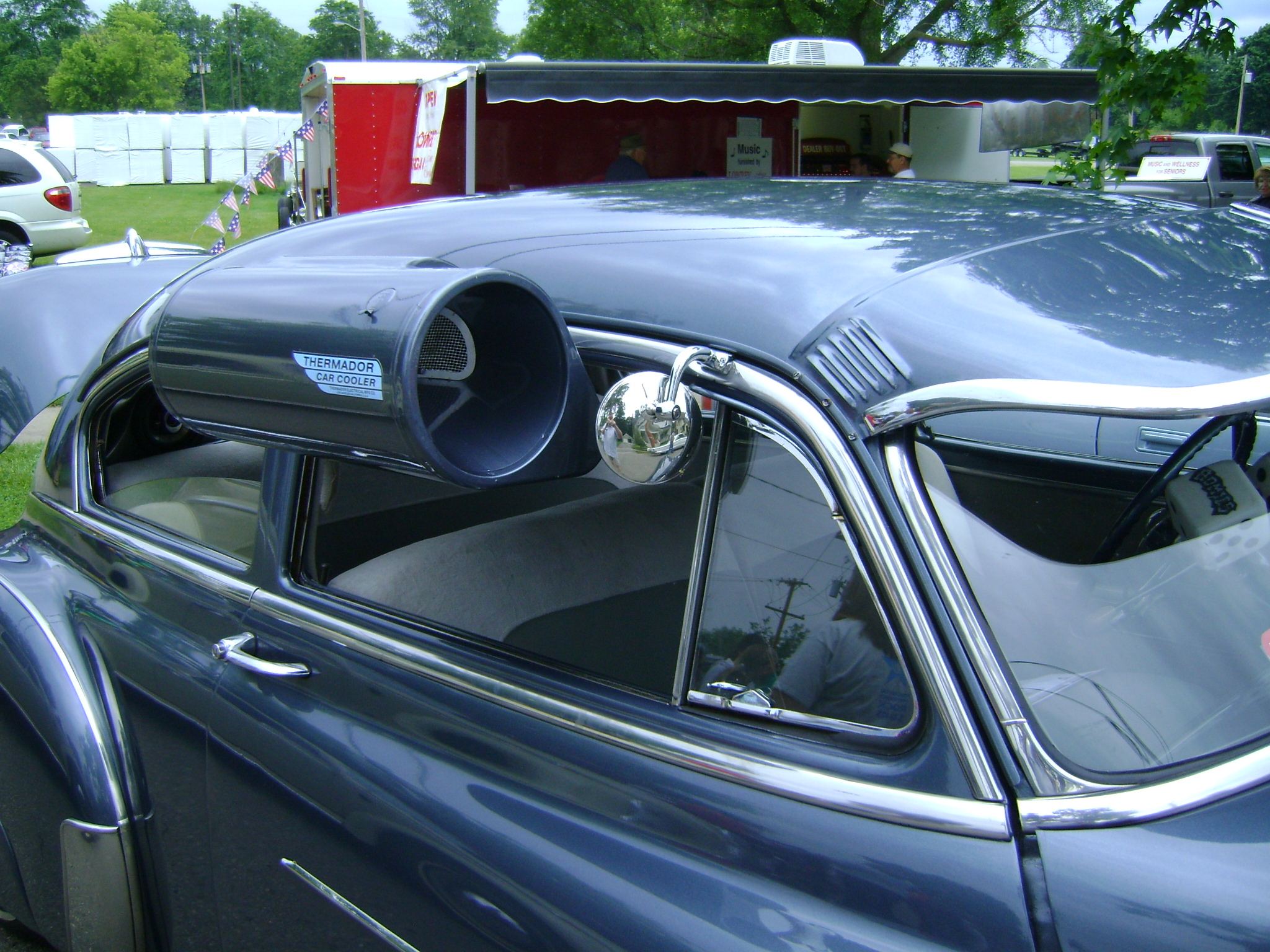 Thermador Car Cooler